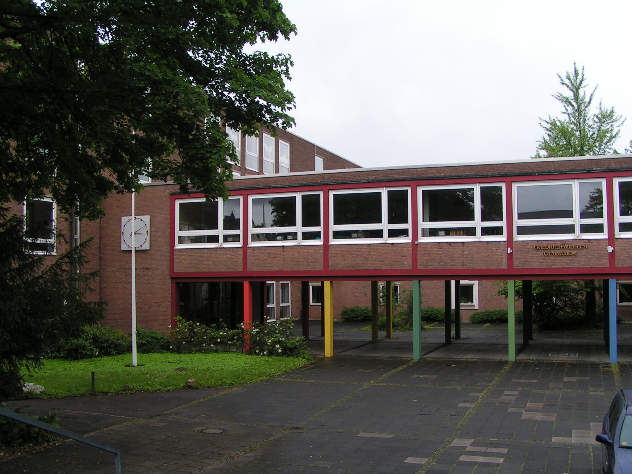 School "Friedrich-Wilhelm-Gymnasium", Trier, Germany